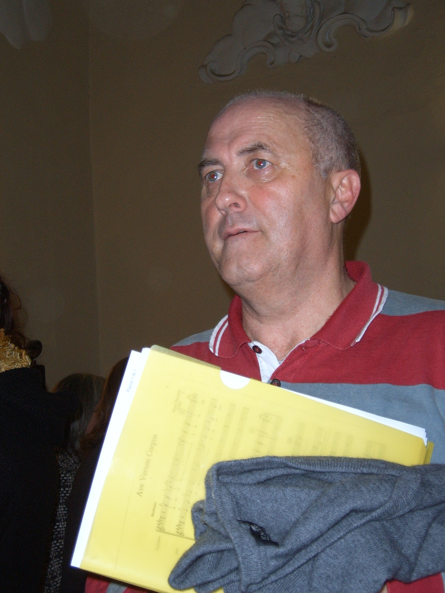 Corso_Direttori_Coro_Arezzo. Well known Spanish composer, Javier Busto.